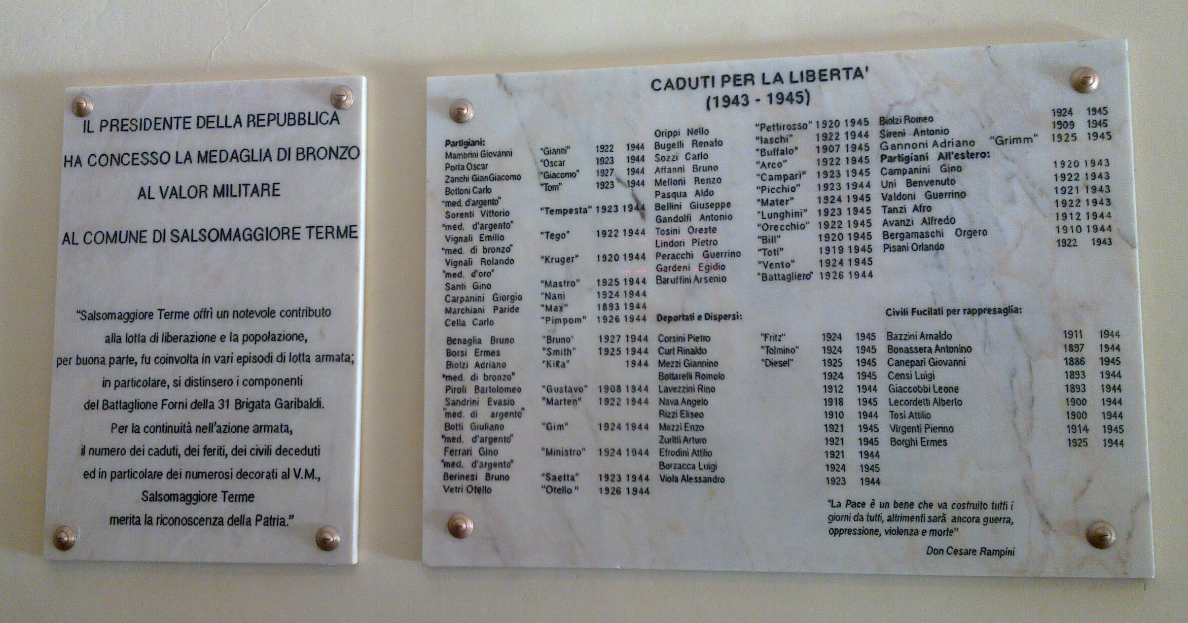 Plaques commemorating the bronze medal of military valor received from Salsomaggiore and the people caught in war of liberation